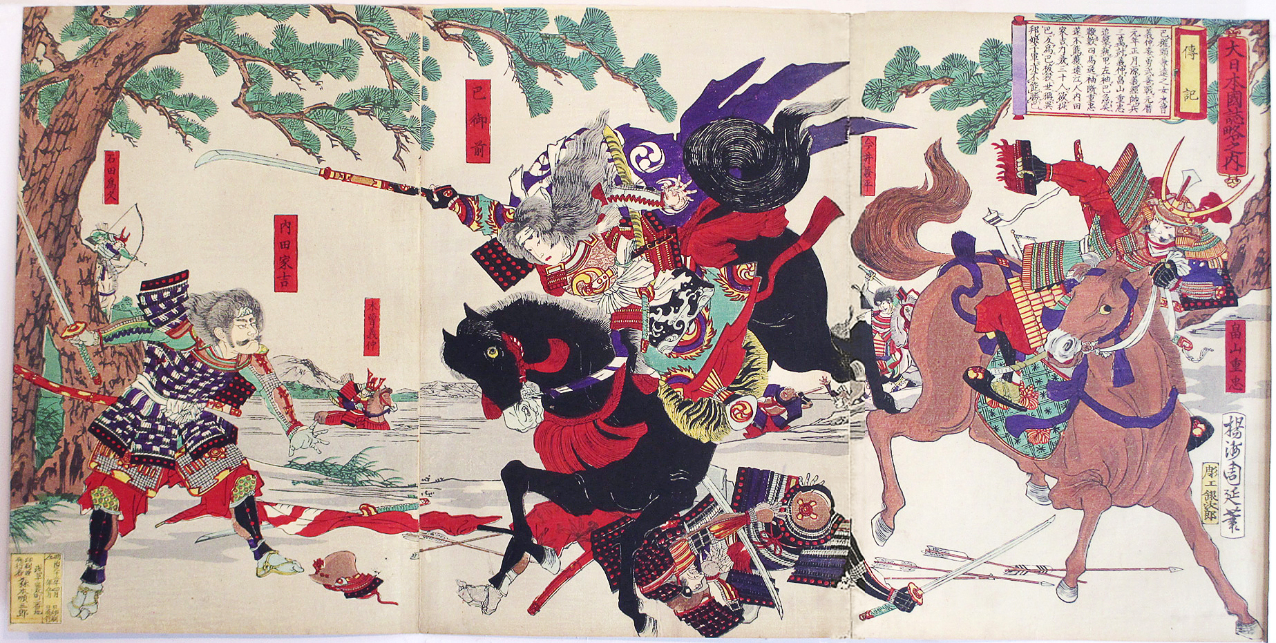 Tomoe Gozen with Uchida Ieyoshi and Hatakeyama no Shigetada. Context: Tomoe Gozen was a rare female samurai. At Battle of Awazu in 1184, she is known for killing Uchida Ieyoshi and for escaping capture by Hatakeyama Shigetada -- Henri L. Joly. (1967). Legend in Japanese Art, p. 540.